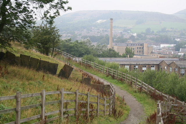 Stone slab fence An unusual form of field boundary using local materials